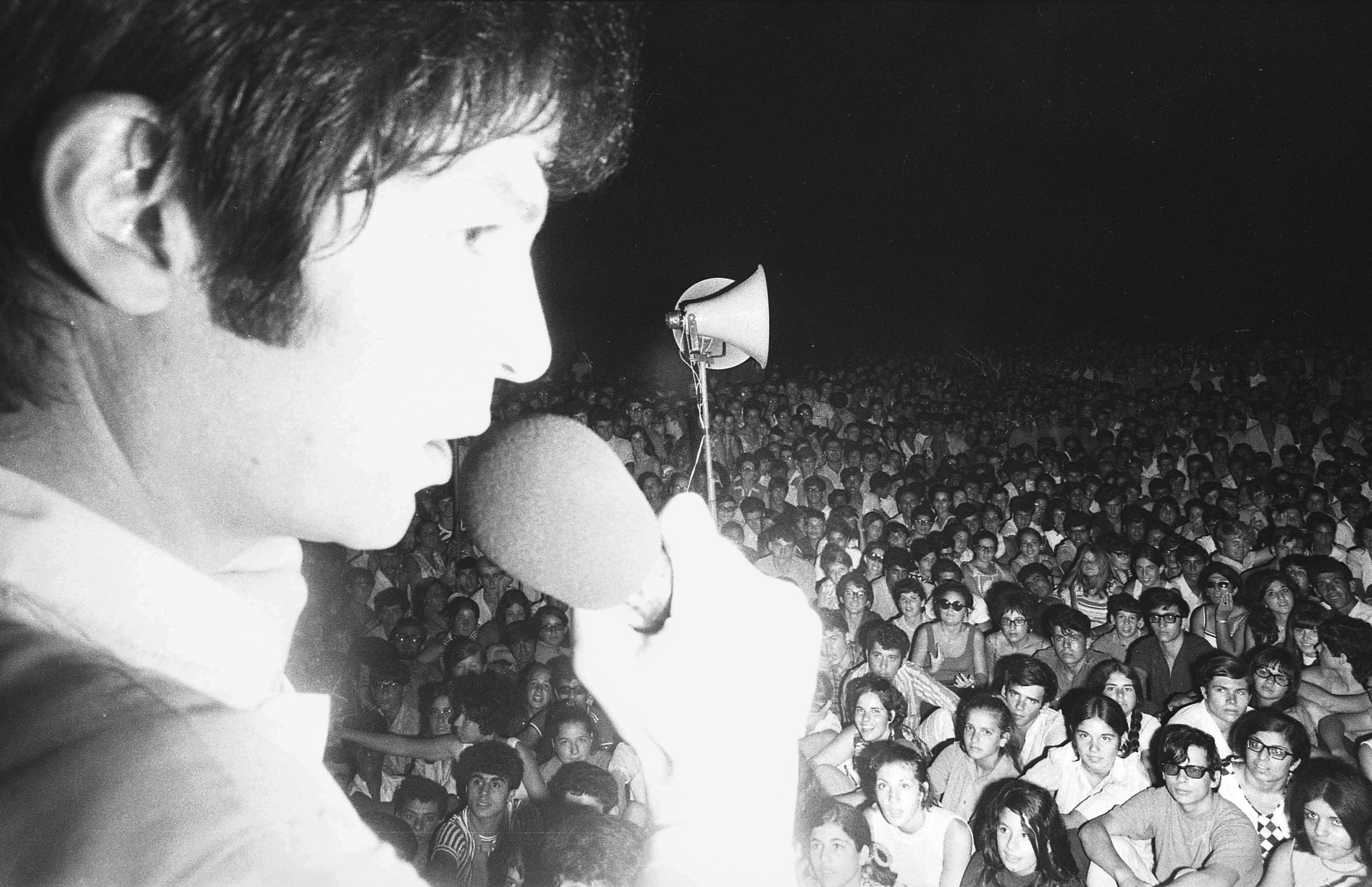 Arik Einstein singing the song "Prague" on the 1st Anniversary of the Soviet Union invasion of Czechoslovakia